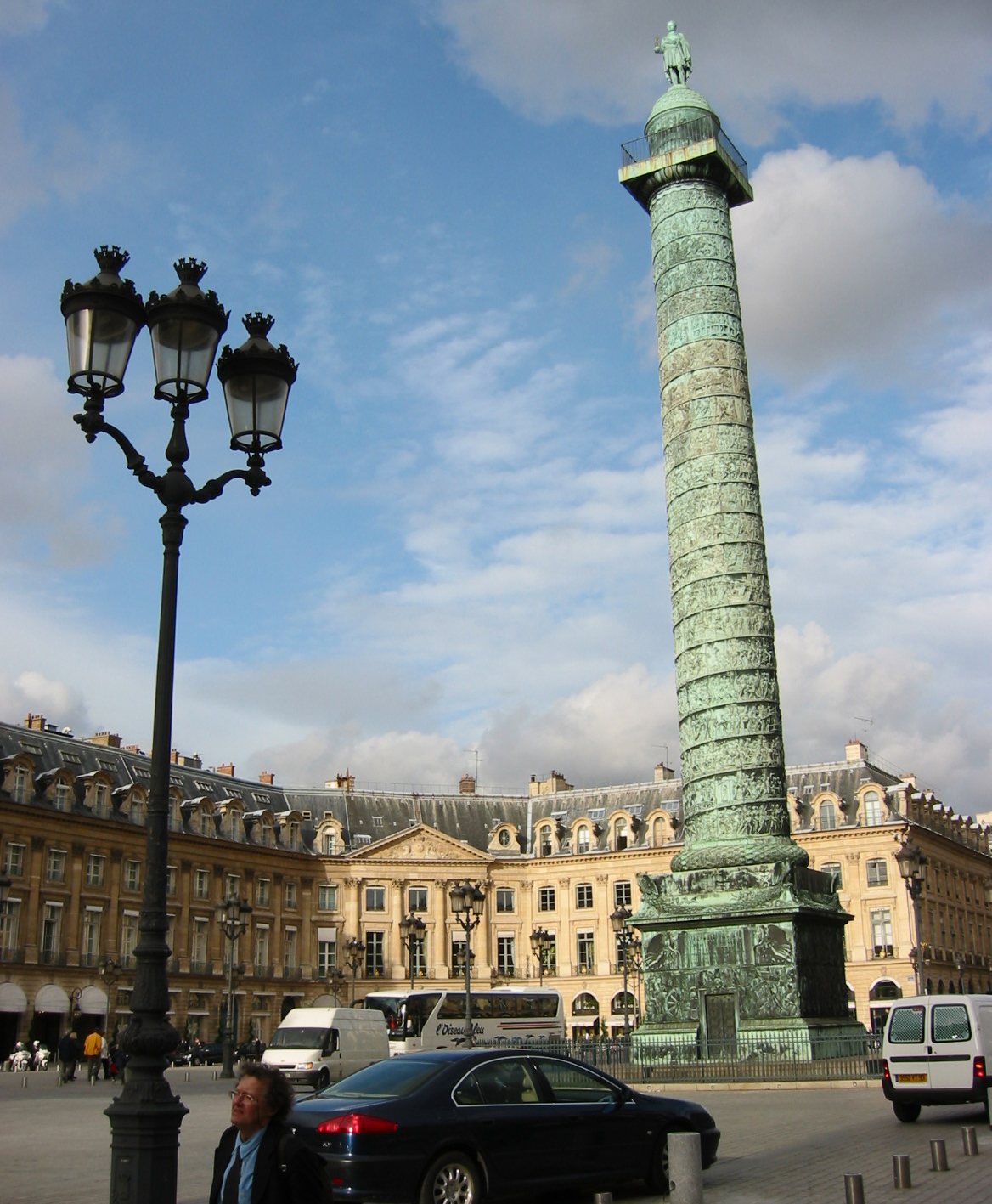 Paris, Place Vendôme